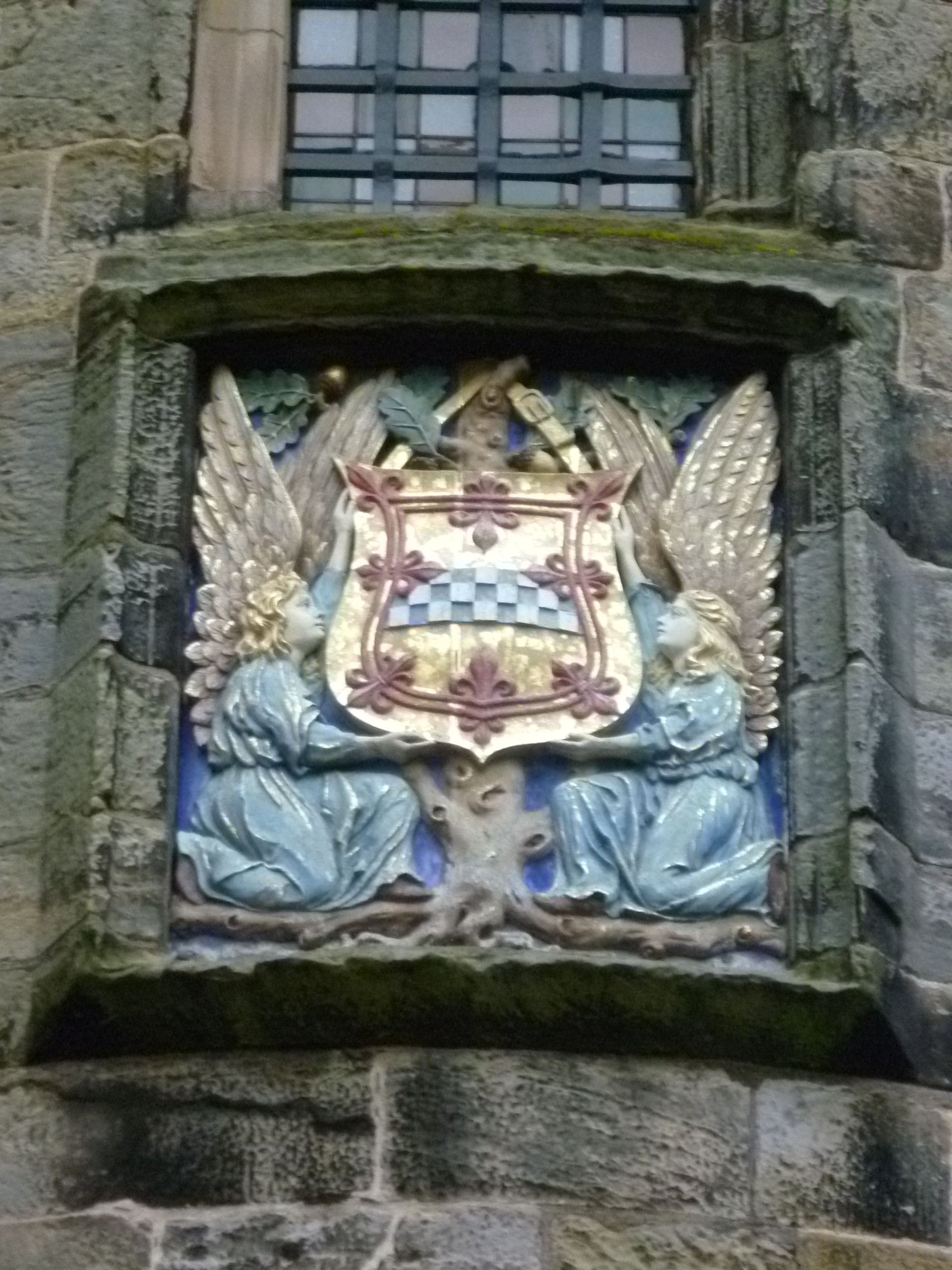 Artistic Display of the Arms of Stuart of Bute, Falkland Palace, Fife Scotland